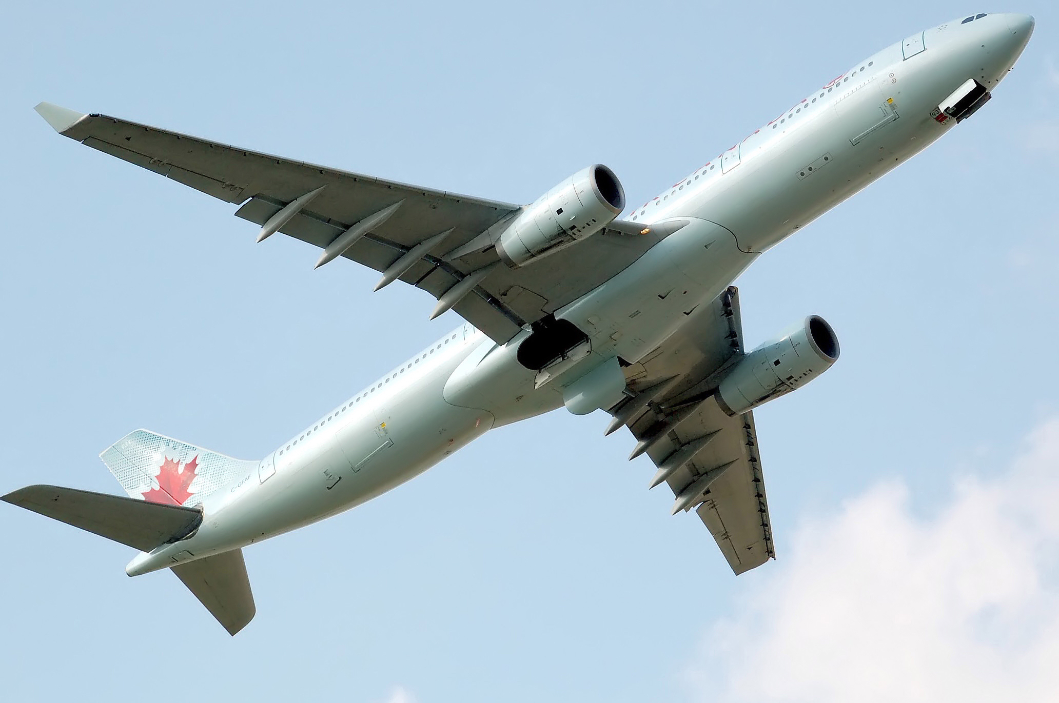 Air Canada Airbus A330-300 (registration C-GFAF) taking off from London Heathrow Airport, England.